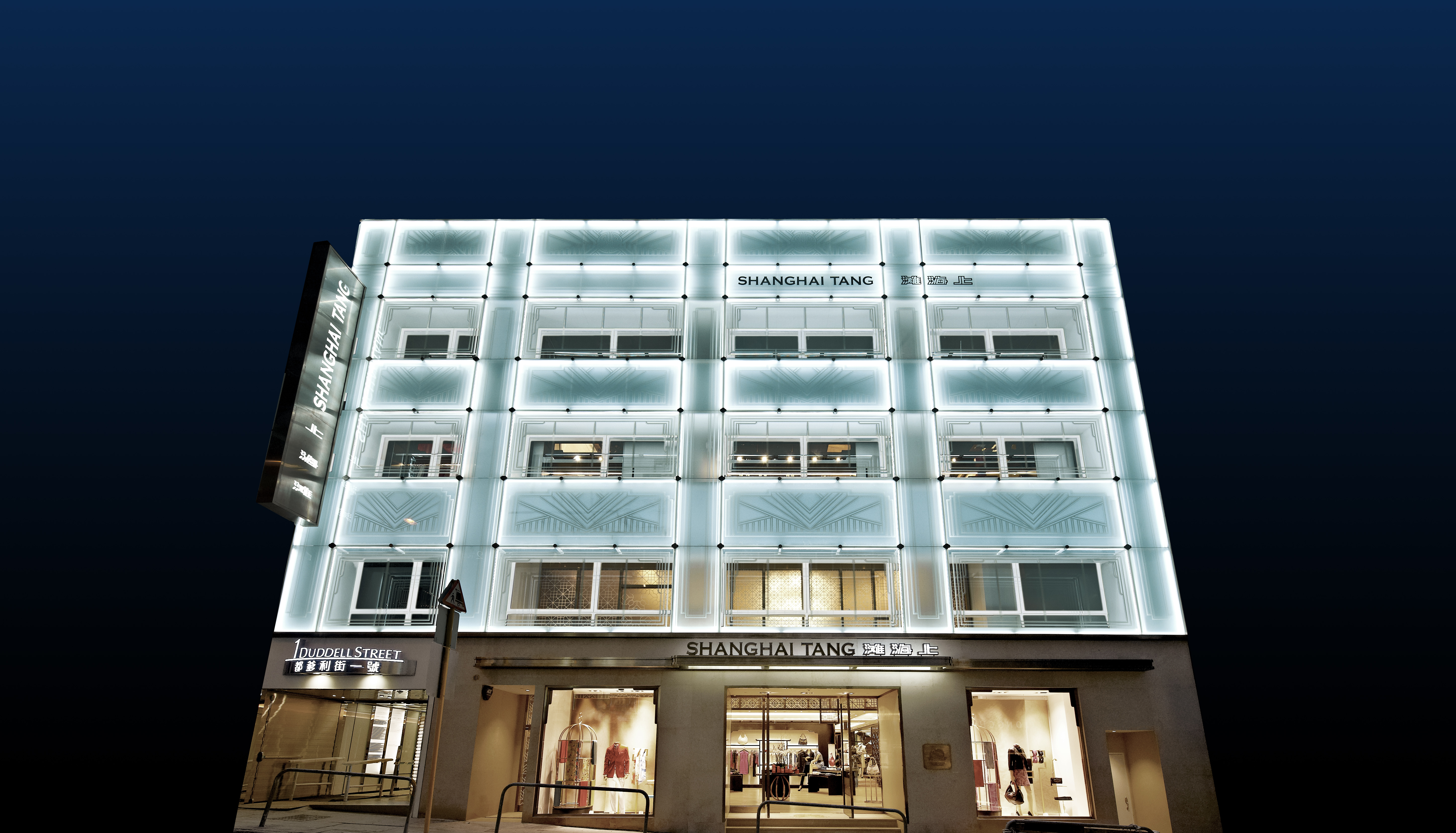 Shanghai Tang flagship on Duddell Street